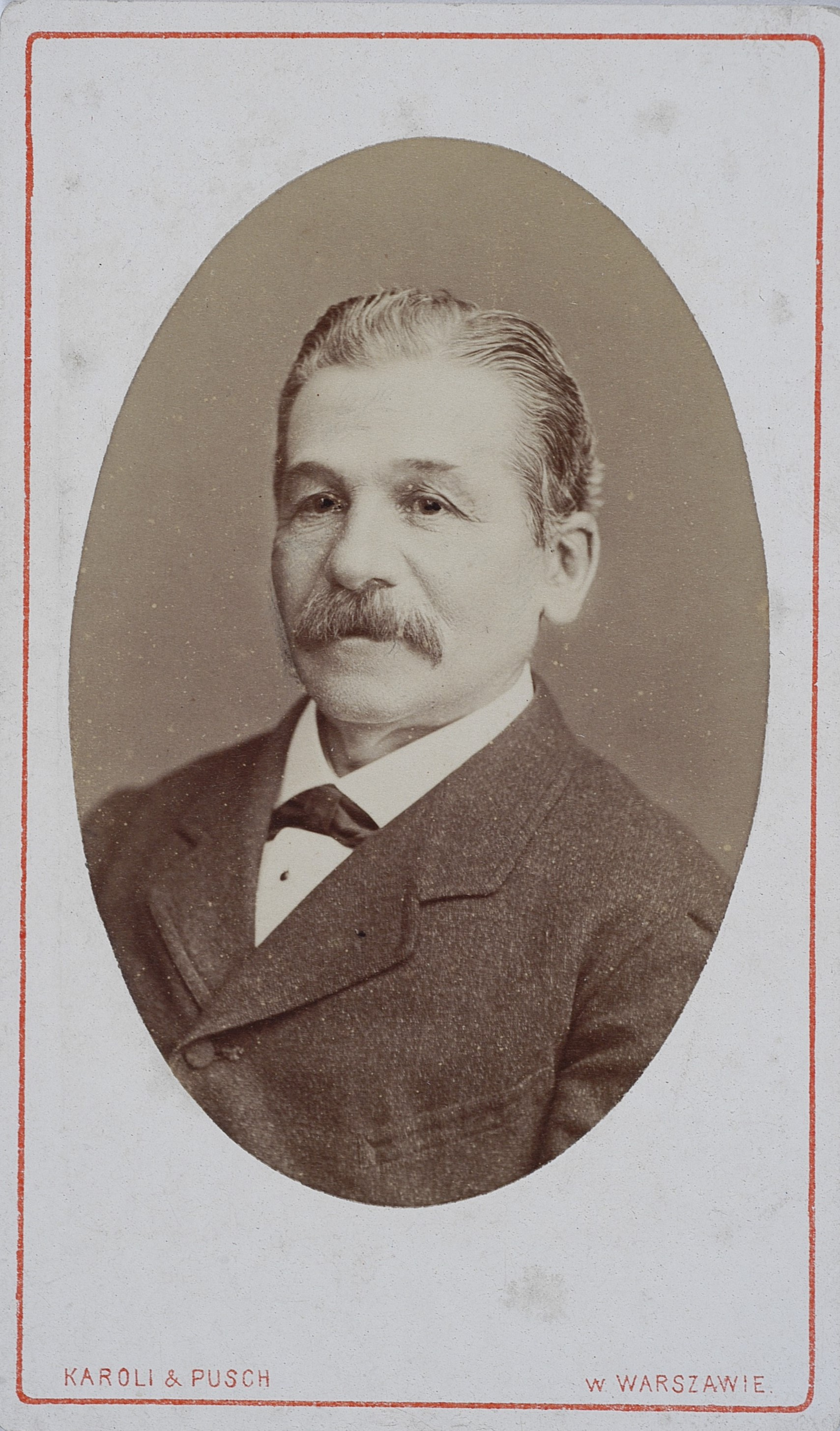 Polish ballet master Roman Turczynowicz, ca. 1879.